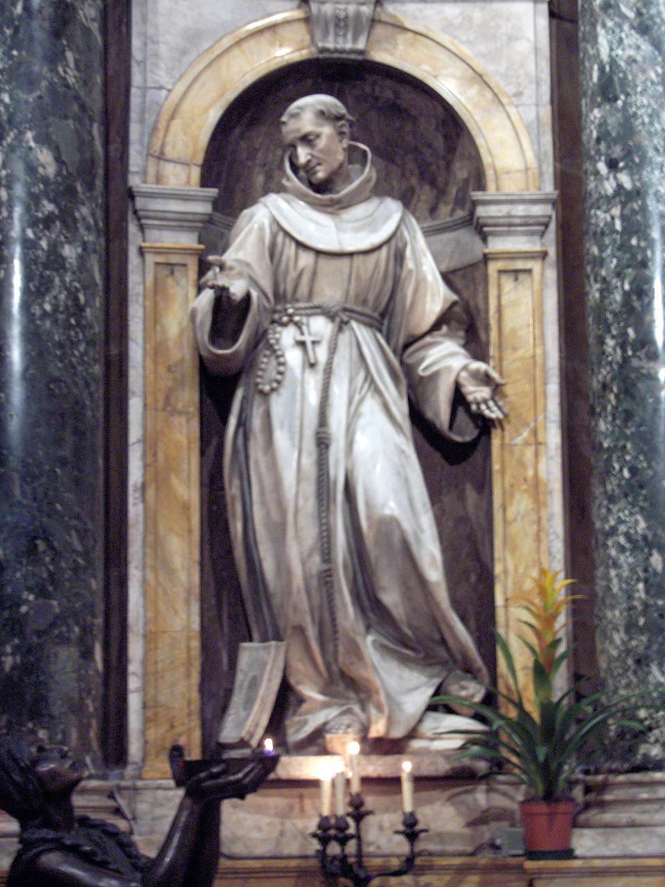 Statue of Saint Bernardino of Siena in the Capella del Voto; Duomo; Siena, Italy